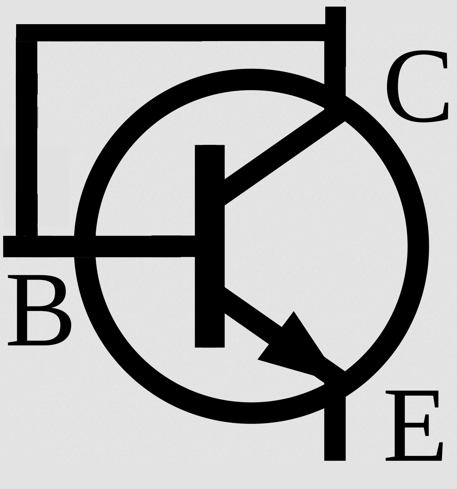 when base of a bipolar junction transistor (BJT) is joined to its collector, transistor converts into diode.